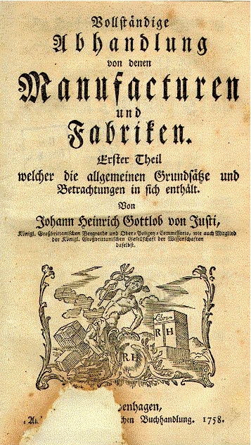 Title page